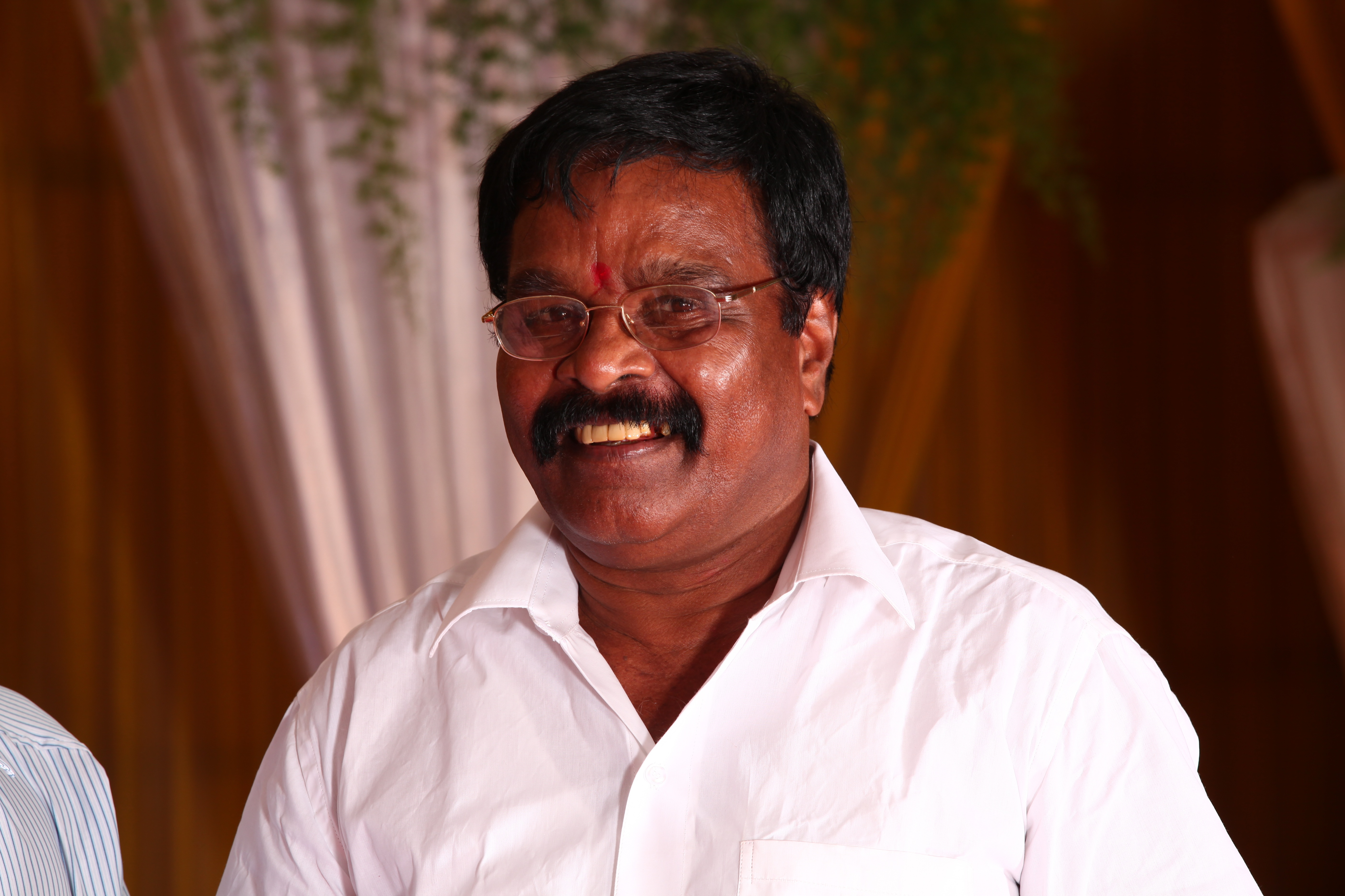 Rajendra Babu R Chennai